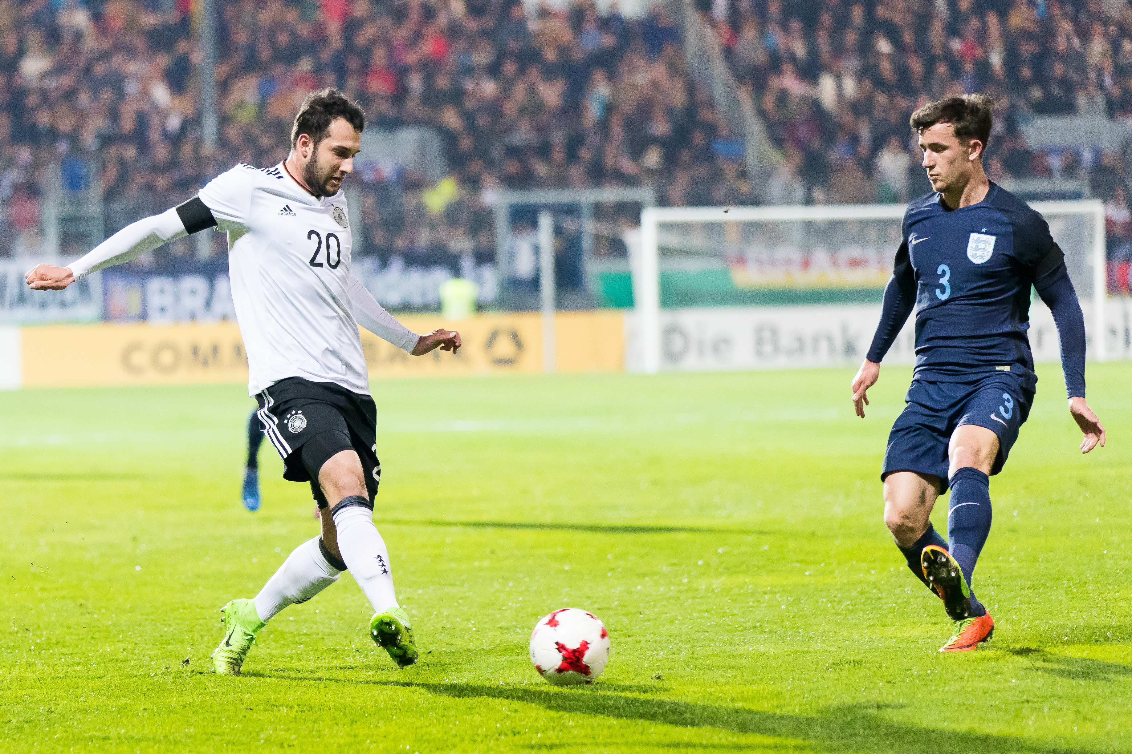 Football U21 Germany vs England (1:0) Team Germany 12 Julian Pollersbeck (1. FC Kaiserslautern) 1 Marvin Schwäbe (Dynamo Dresden) 23 Odisseas Vlachodimos (Panathinaikos Athen) 16 Kevin Akpoguma (Fortuna Düsseldorf) 3 Yannick Gerhardt (VfL Wolfsburg) 5 Matthias Ginter (Borussia Dortmund) 22 Benjamin Henrichs (Bayer 04 Leverkusen) 15 Marc-Oliver Kempf (SC Freiburg) 4 Niklas Stark (Hertha BSC) 13 Jeremy Toljan (1899 Hoffenheim) 2 Mitchell Weiser (Hertha BSC) 18 Nadiem Amiri (1899 Hoffenheim) 10 Maximilian Arnold (VfL Wolfsburg) 25 Hany Mukhtar (Brøndby IF) 7 Max Meyer (FC Schalke 04) 19 Janik Haberer (SC Freiburg) 21 Gideon Jung (Hamburger SV) 20 Levin Öztunali (1. FSV Mainz 05) 17 Maximilian Philipp (SC Freiburg) 9 Davie Selke (RB Leipzig) 27 Thilo Kehrer (FC Schalke 04) Team England 1 Jordan Pickford (Sunderland) 2 Mason Holgate (Everton) 13 Angus Gunn (Manchester City) 21 Christian Walton (Brighton) 16 Kortney Hause (Wolverhampton) 5 Jack Stephens (Southampton) 15 Rob Holding (Arsenal) 12 Joe Gomez (Liverpool) 3 Ben Chilwell (Leicester City) 6 Alfie Mawson (Swansea City) 22 Sam McQueen (Southampton) 4 Nathaniel Chalobah (Chelsea) 14 Will Hughes (Derby County) 20 Ruben Loftus-Cheek (Chelsea) 10 Lewis Baker (Vitesse Arnheim) 18 John Swift (Reading) 23 Jack Grealish (Aston Villa) 8 Harry Winks (Hotspur) 19 Cauley Woodrow (Fulham) 9 Tammy Abraham (Bristol City) 17 Solly March (Brighton) 11 Jacob Murphy (Norwich) during Fussball U21 Deutschland vs England at Brita-Arena, Wiesbaden, Hessen, Germany on 2017-03-24, Photo: Sven Mandel